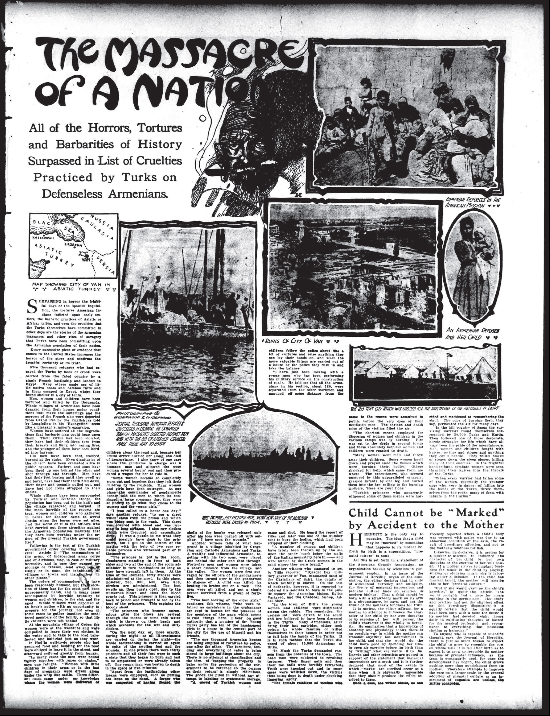 Washington herald., December 19, 1915, Feature Section, Image 39